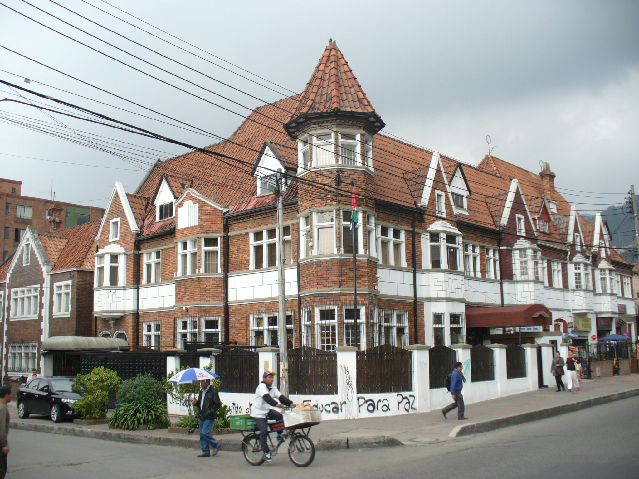 The palestinian special mission in Bogota.